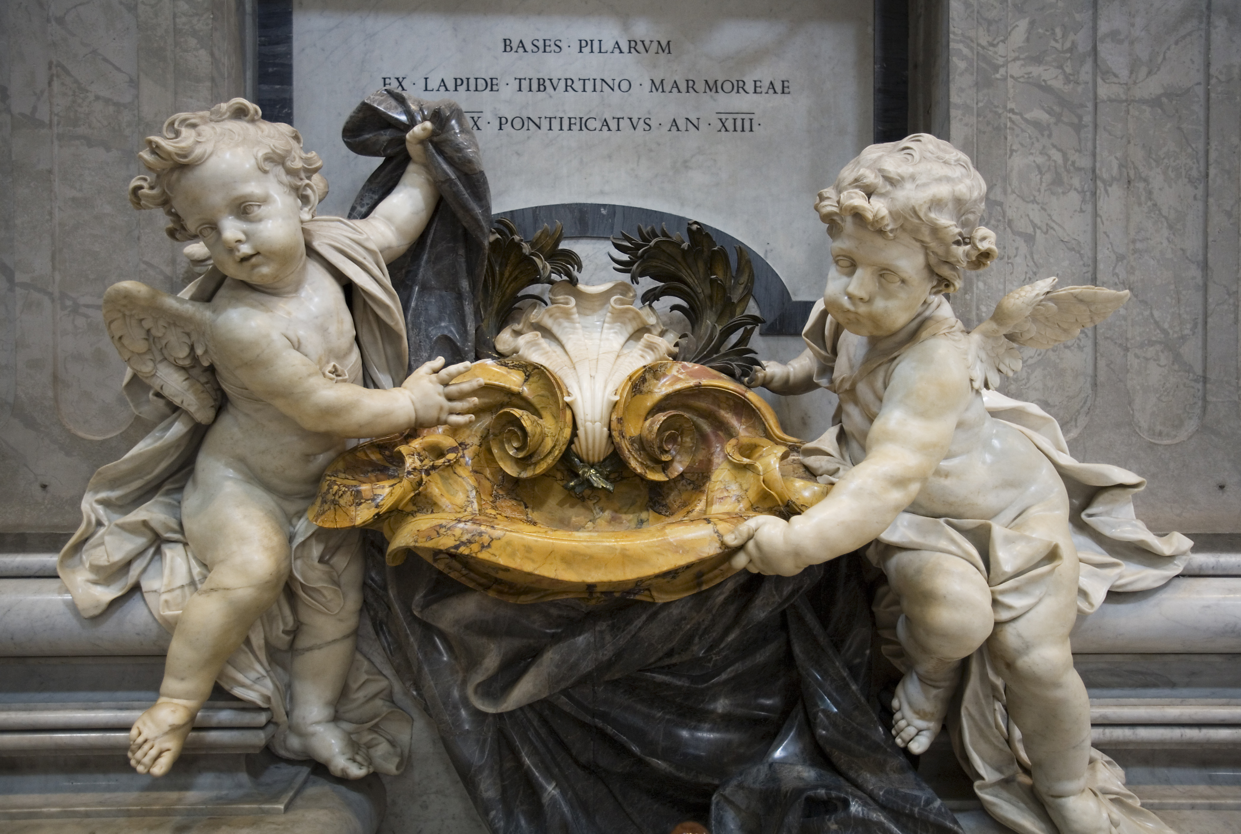 Detail of the Cherubs Fountain at St Peter's Basilica or Basilica di San Pietro, Rome, Italy